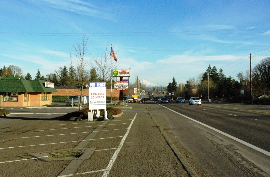 TV Hwy in Aloha, Oregon, USA looking east at Mount Hood